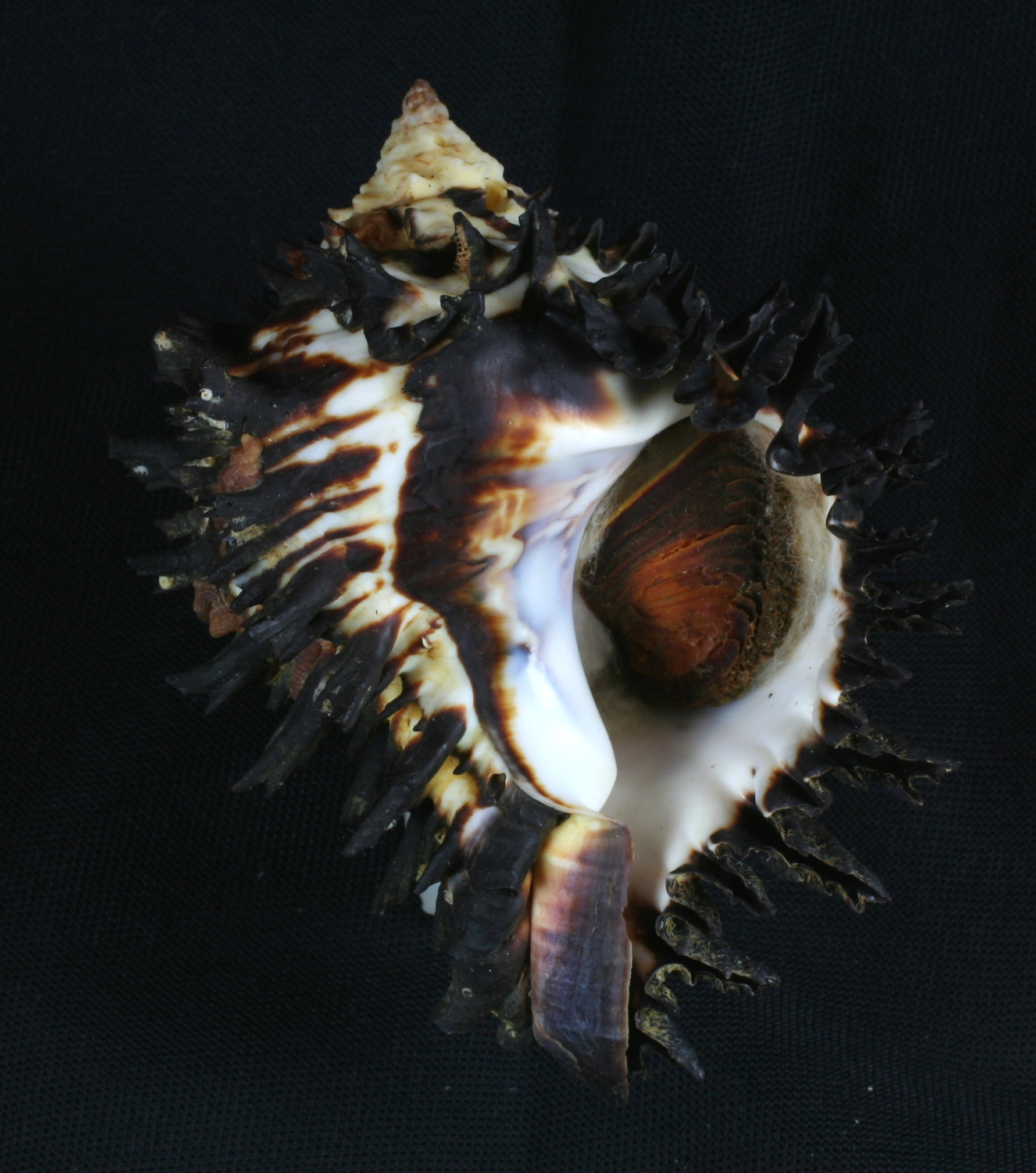 Muricidae: shell of Hexaplex radix (Gmelin, 1791) and operculum, measuring 90.3 mm in height, from Amador in Panama